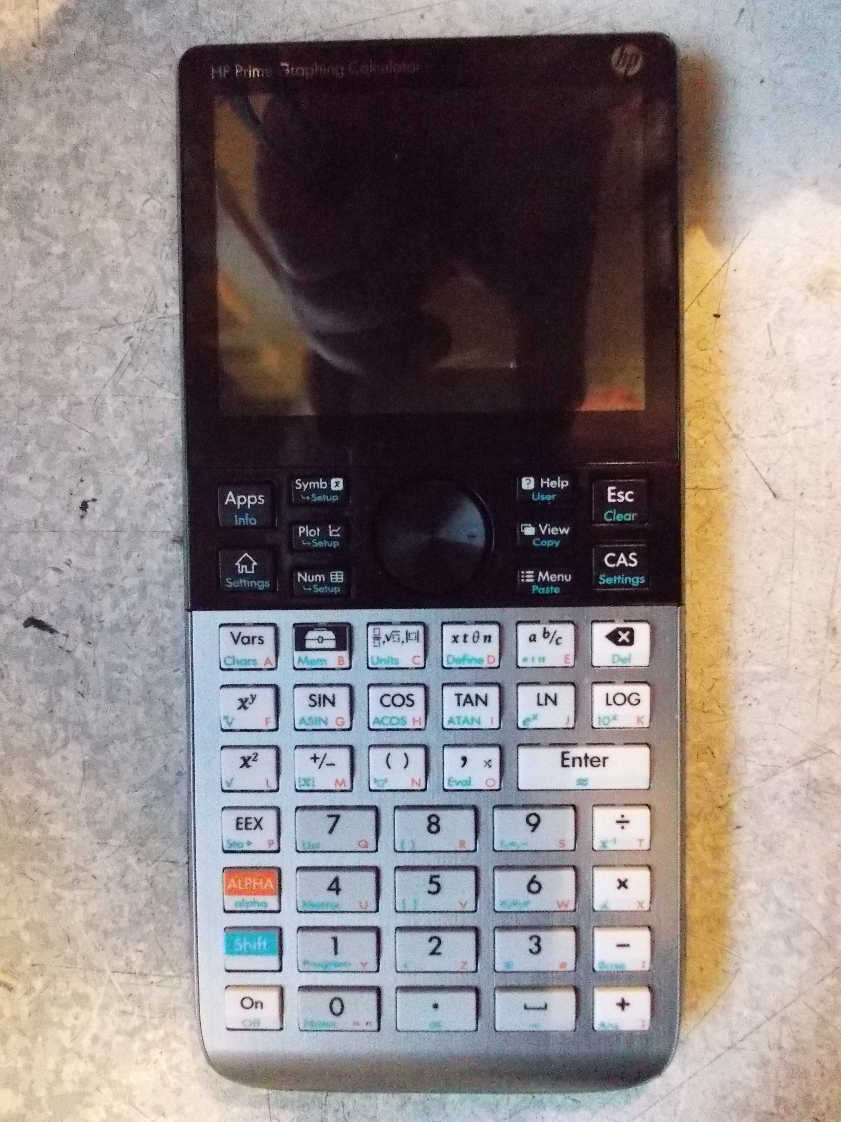 This is a photo of the HP Prime graphing calculator, which is HP's first colour graphics calculator.